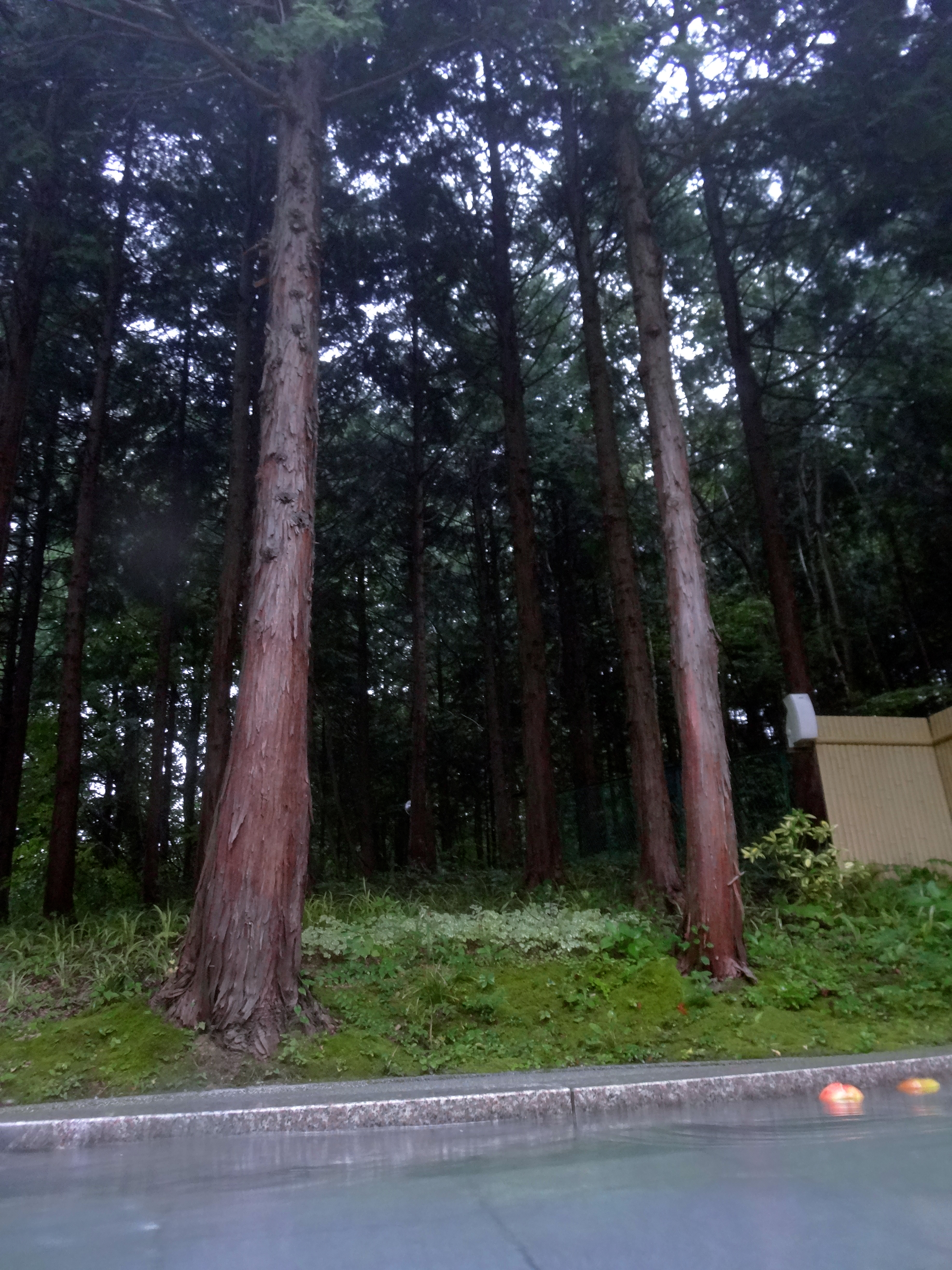 Kannabe Onsen Blue Ridge Hotel in Kannabe highlands, Toyooka, Hyogo prefecture, Japan